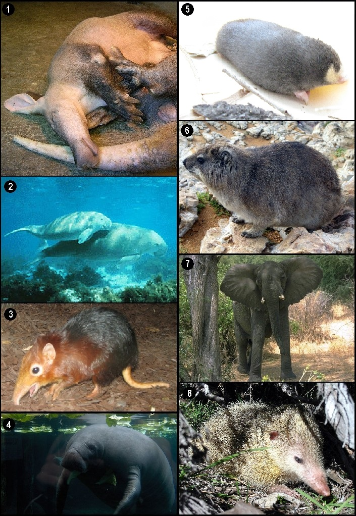 Afrotheria